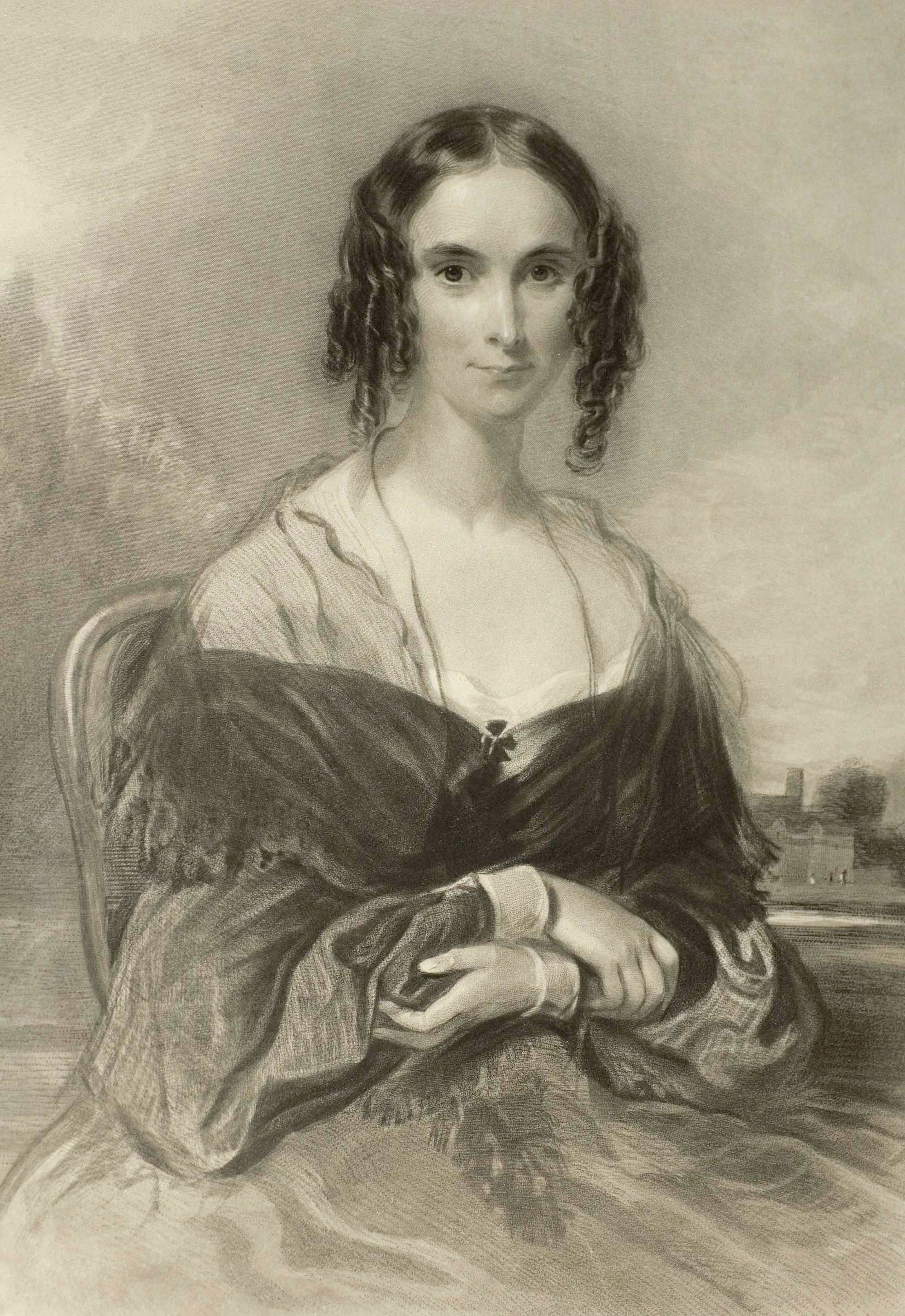 Mrs Sarah H Selwyn born Sarah Harriet Richardson - bishops wife in NZ